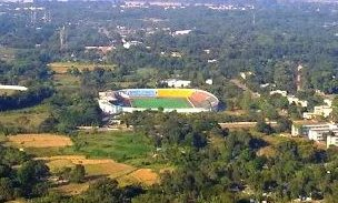 Biju Patnaik Hockey Stadium at Rourkela